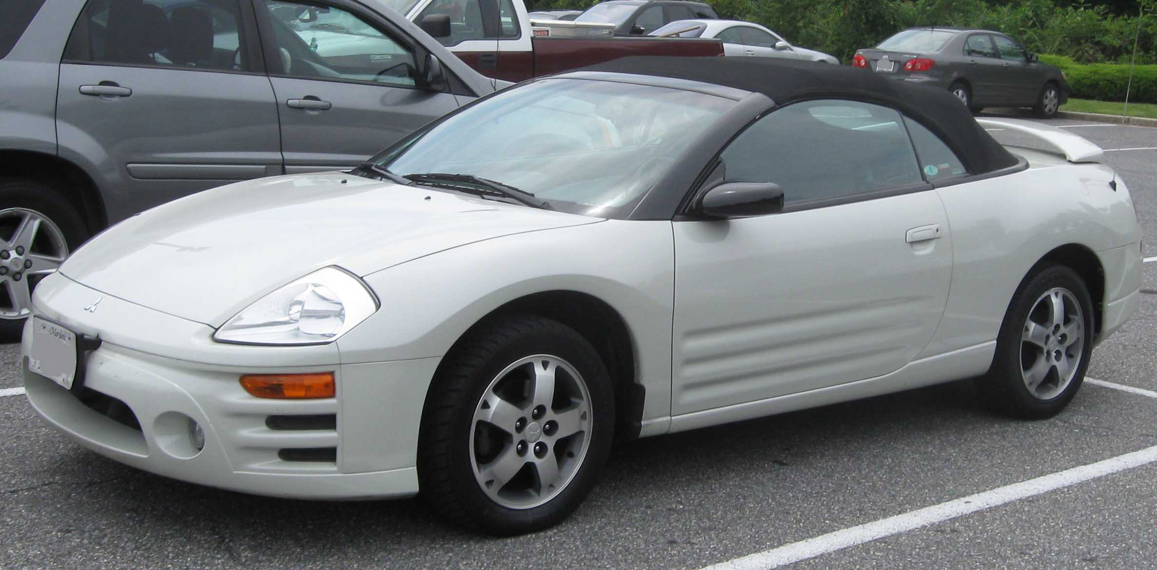 2003-2005 Mitsubishi Eclipse photographed in Fort Washington, Maryland, USA.